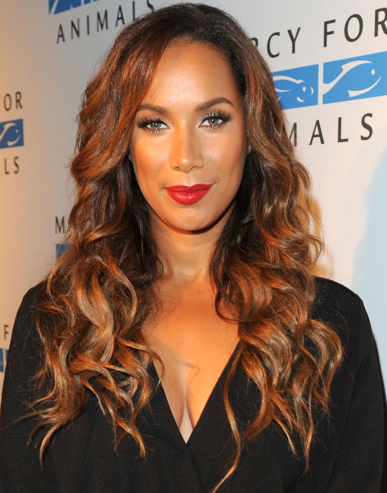 Leona Lewis in 'Mercy For Animals' charity event in Los Angeles in 2014.